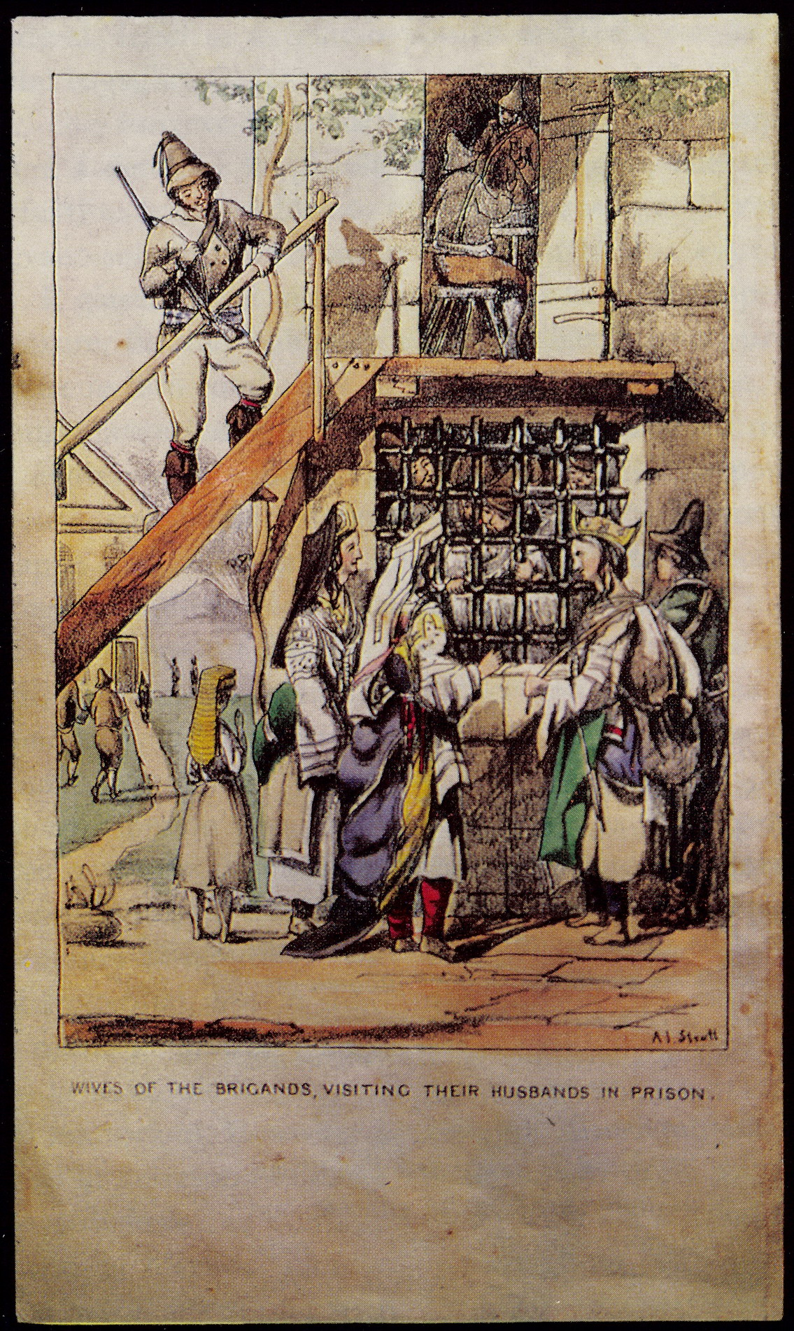 Illustration from A pedestrian tour in Calabria & Sicily